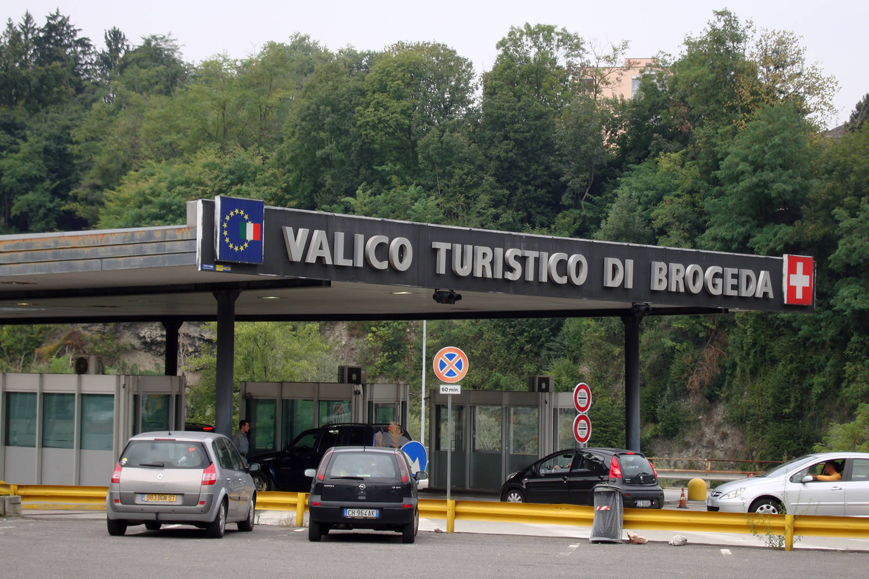 EU (Italy) - Swiss border post.